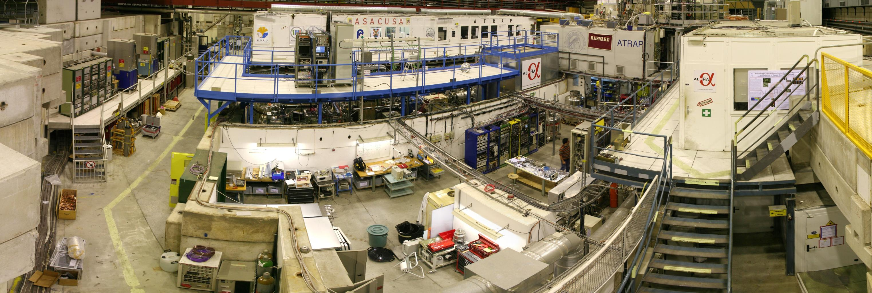 Experimental area at CERNs Antiproton Decelerator (AD) seen from northern corner. ALPHAs experimental zone is seen in the foreground, with ASACUSAs zone just behind. ATRAPs zone is in the upper right corner. The actual AD ring is behind the concrete shielding seen to the left.